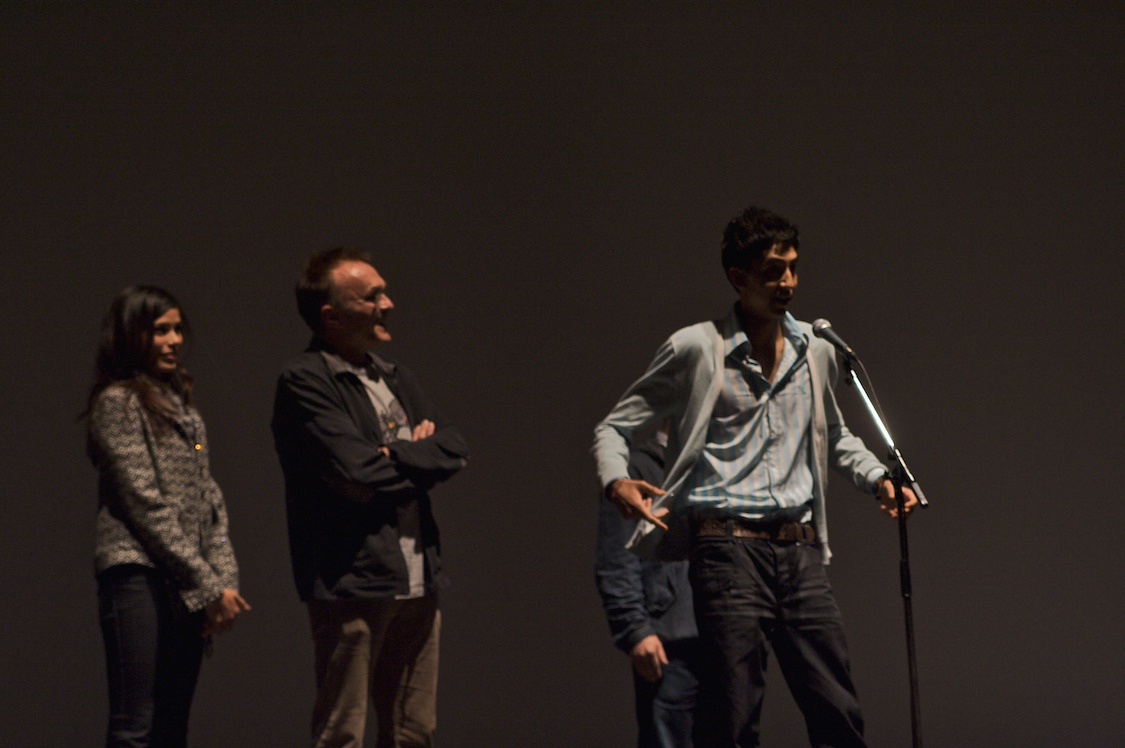 TIFF 2008 Slumdog Millionaire screening at Ryerson Danny Boyle Simon Beaufoy Freida Pinto Dev Patel